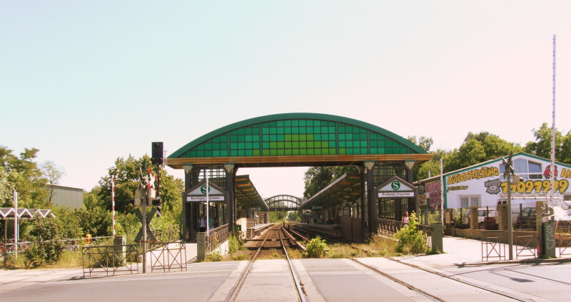 S-Bahn-Station Buckower Chaussee in Berlin-Marienfelde: The Portal to the level crossing with the epinomous Buckower Chaussee